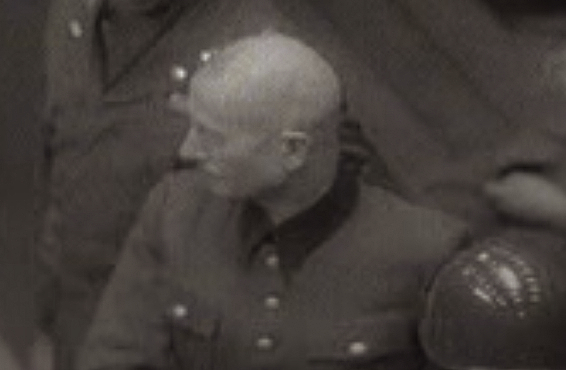 Walter Kuntze (1883-1960), War Crimes Trials - Subsequent Trial Proceedings - Hostages Trial #7, Nuremberg, Germany. Sentencing Southeast Generals.